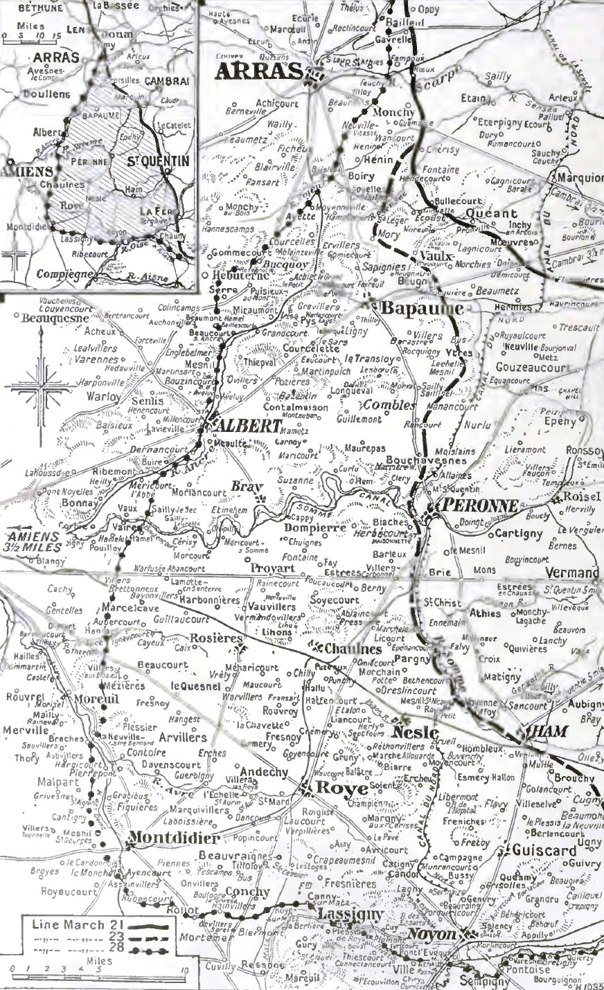 Map, German advance, 23-28 March 1918